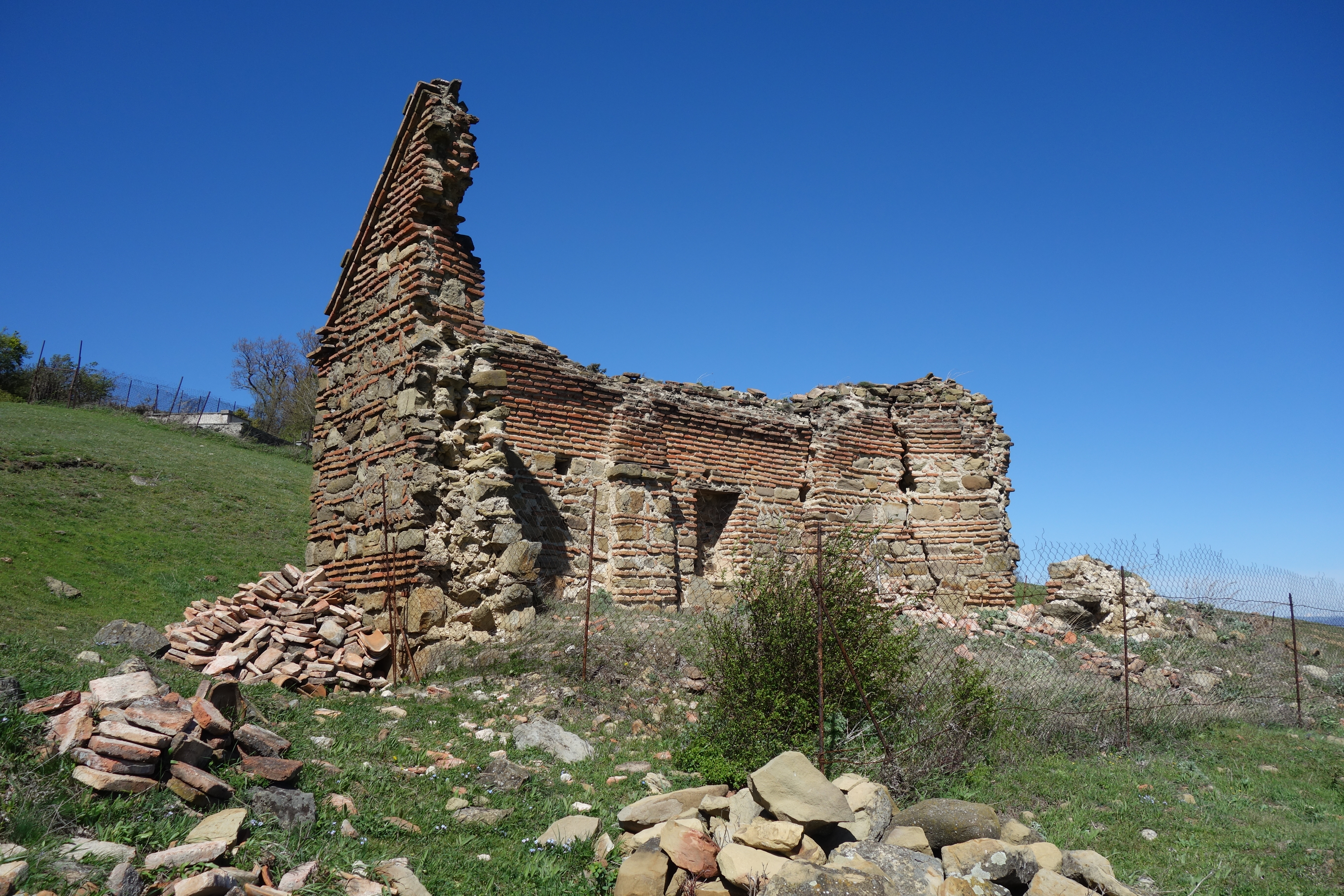 Saint Nino Church, Telovani, Tbilisi, Georgia